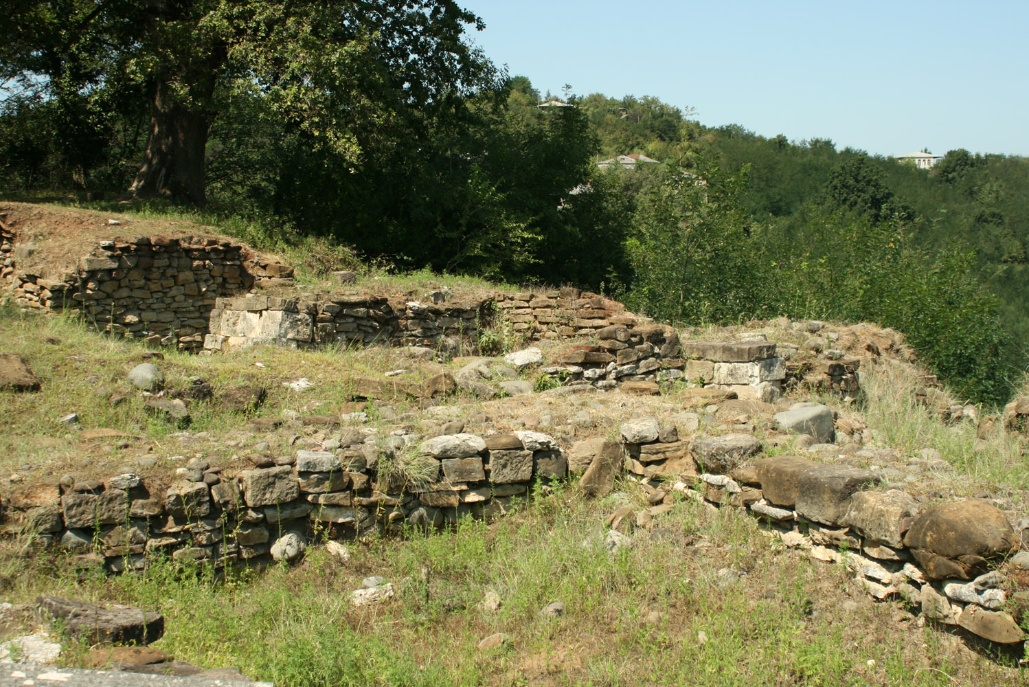 Vani, Georgia. Ruins of ancient settlement